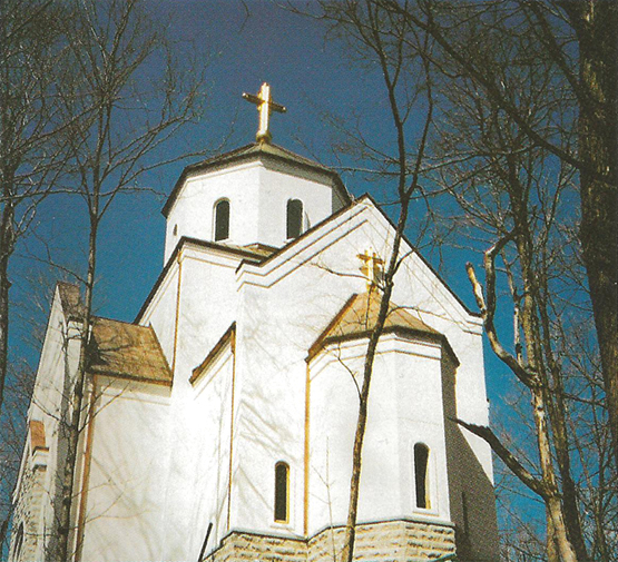 The Serbian Orthodox Monastery in Milton, Ontario in 1994.